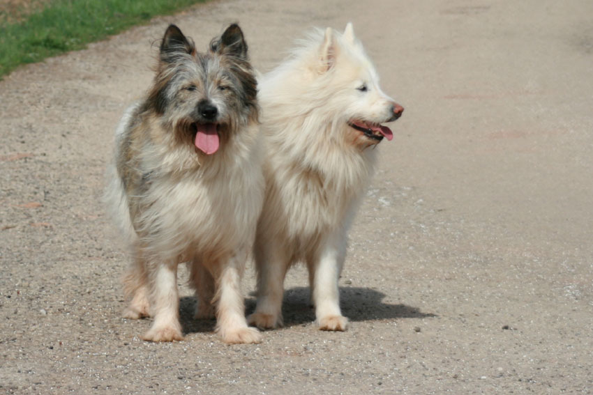 Elo female wirehaired tri-color and Elo male moderate wirehaired cream-color